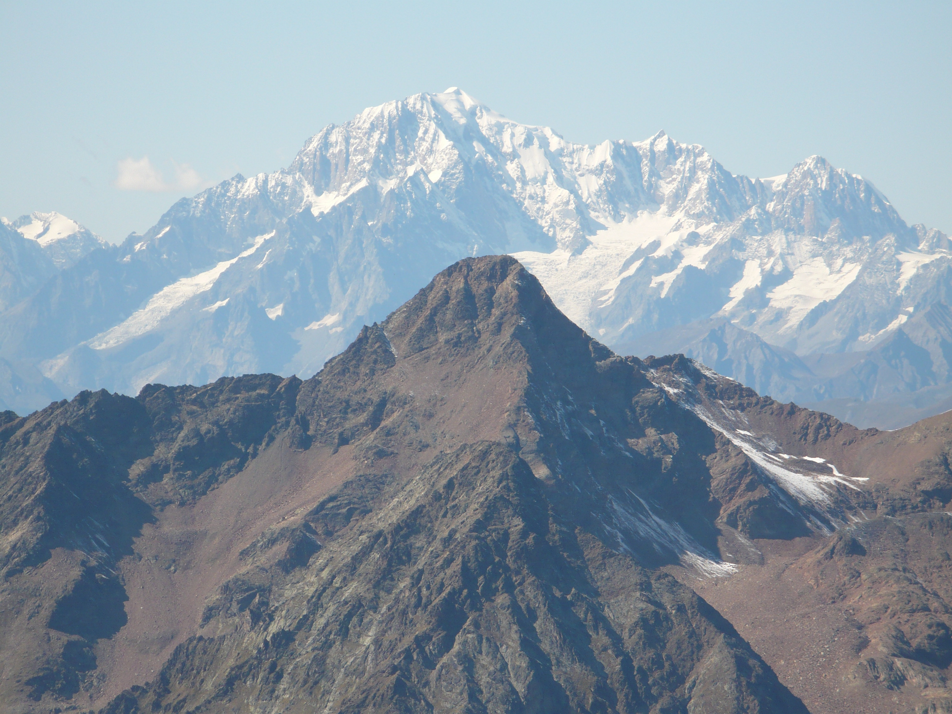 Punta Garin and mount Blanc - Graian Alps - Aosta Valley - Italy